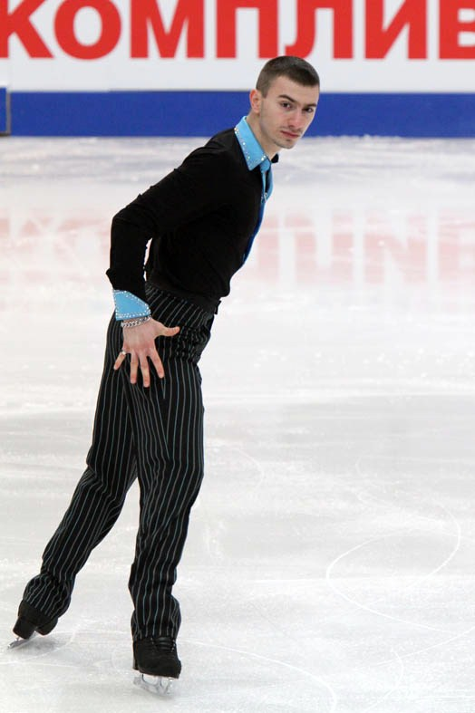 Tigran Vardanjan at the 2011 European Figure Skating Championships.